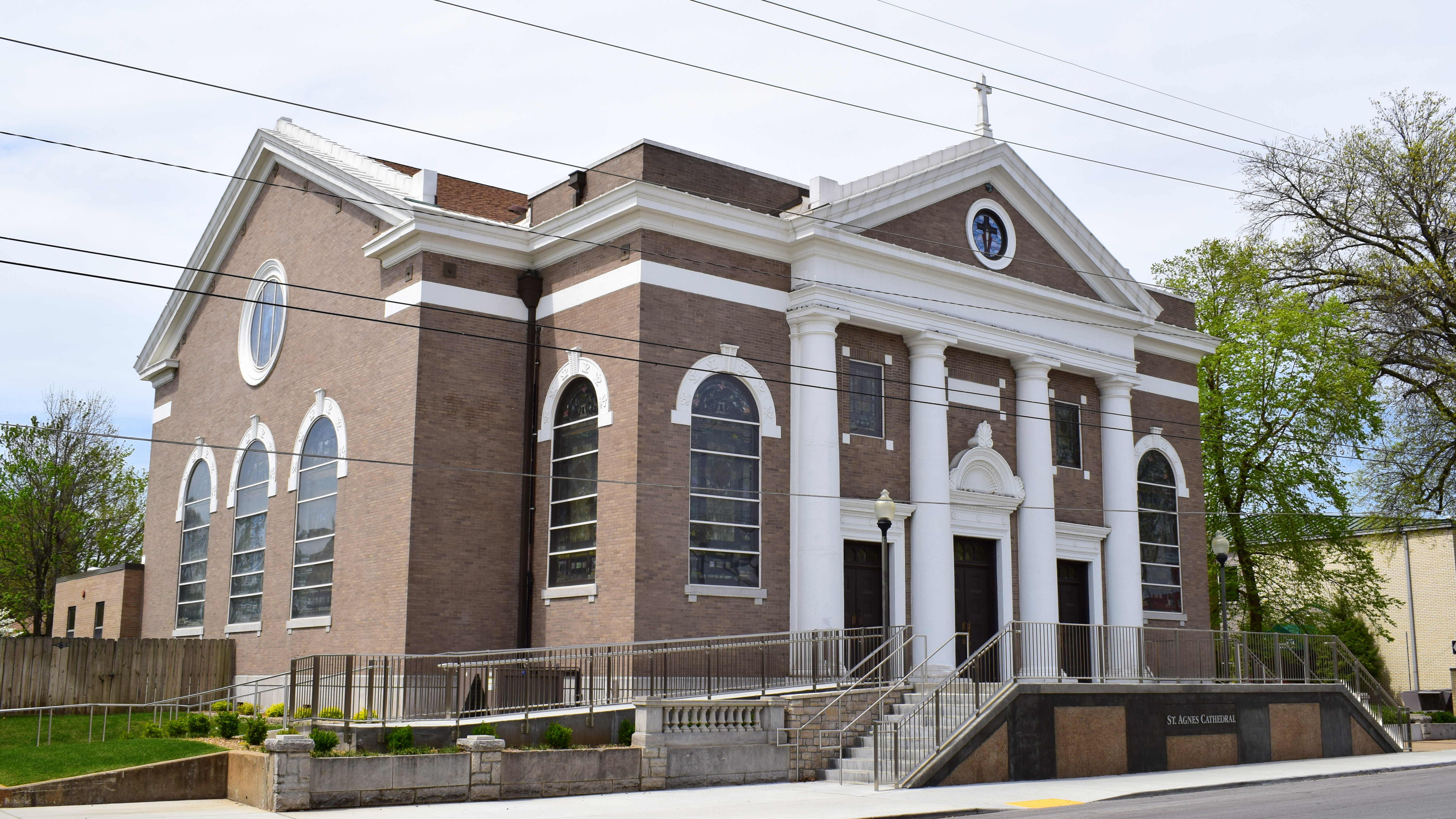 Saint Agnes Cathedral (Springfield, Missouri) - exterior